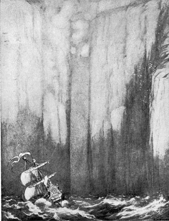 Illustration by Sidney Sime for Lord Dunsany's story "Idle Days on the Yann", from the 1910 book A Dreamer's Tales.